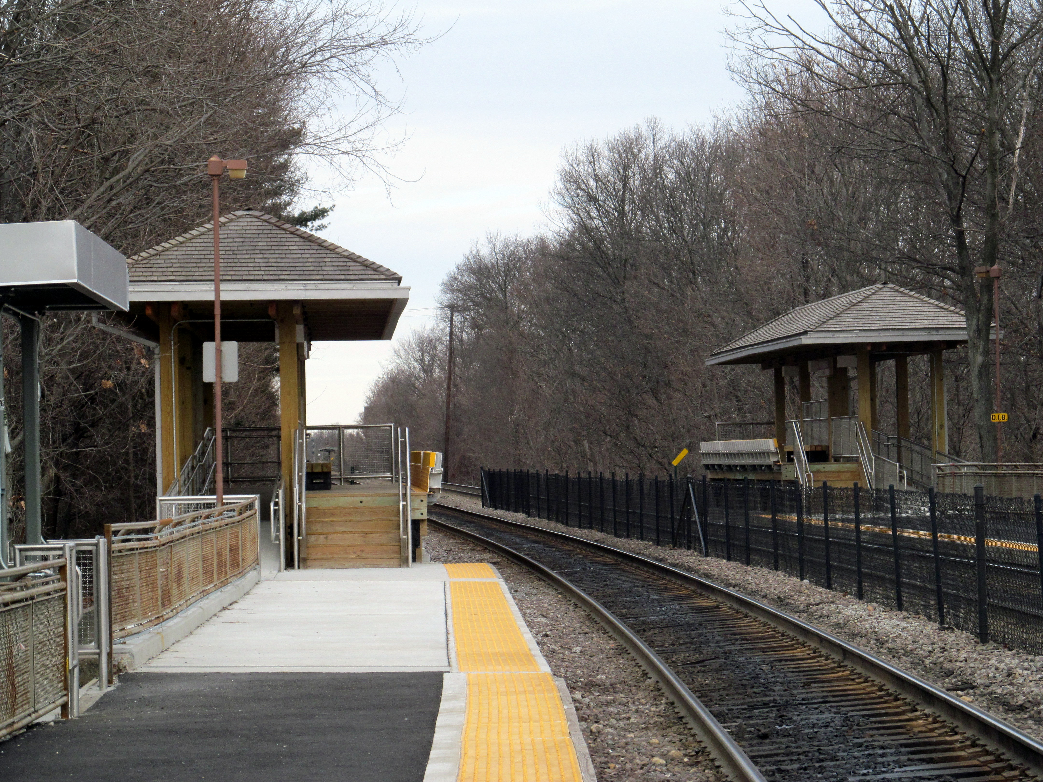 Mini-high platforms under construction at Wedgemere in January 2013